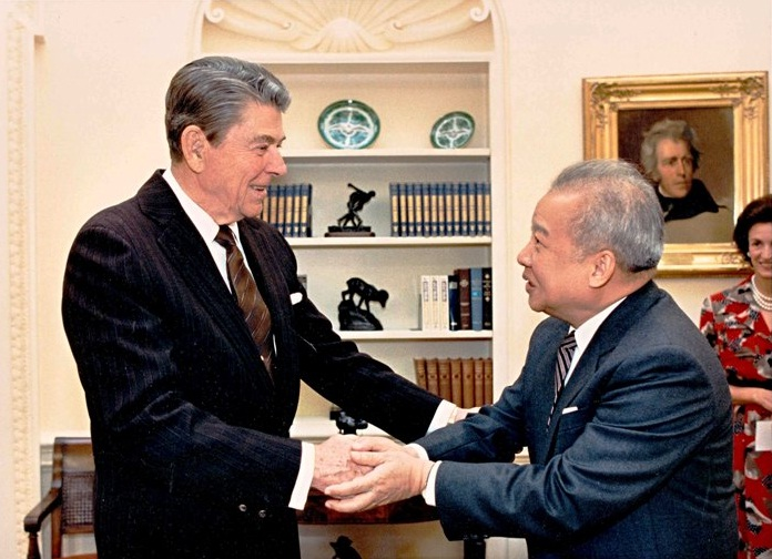 His Majesty King Father Norodom Sihanouk with President Ronald Reagan.